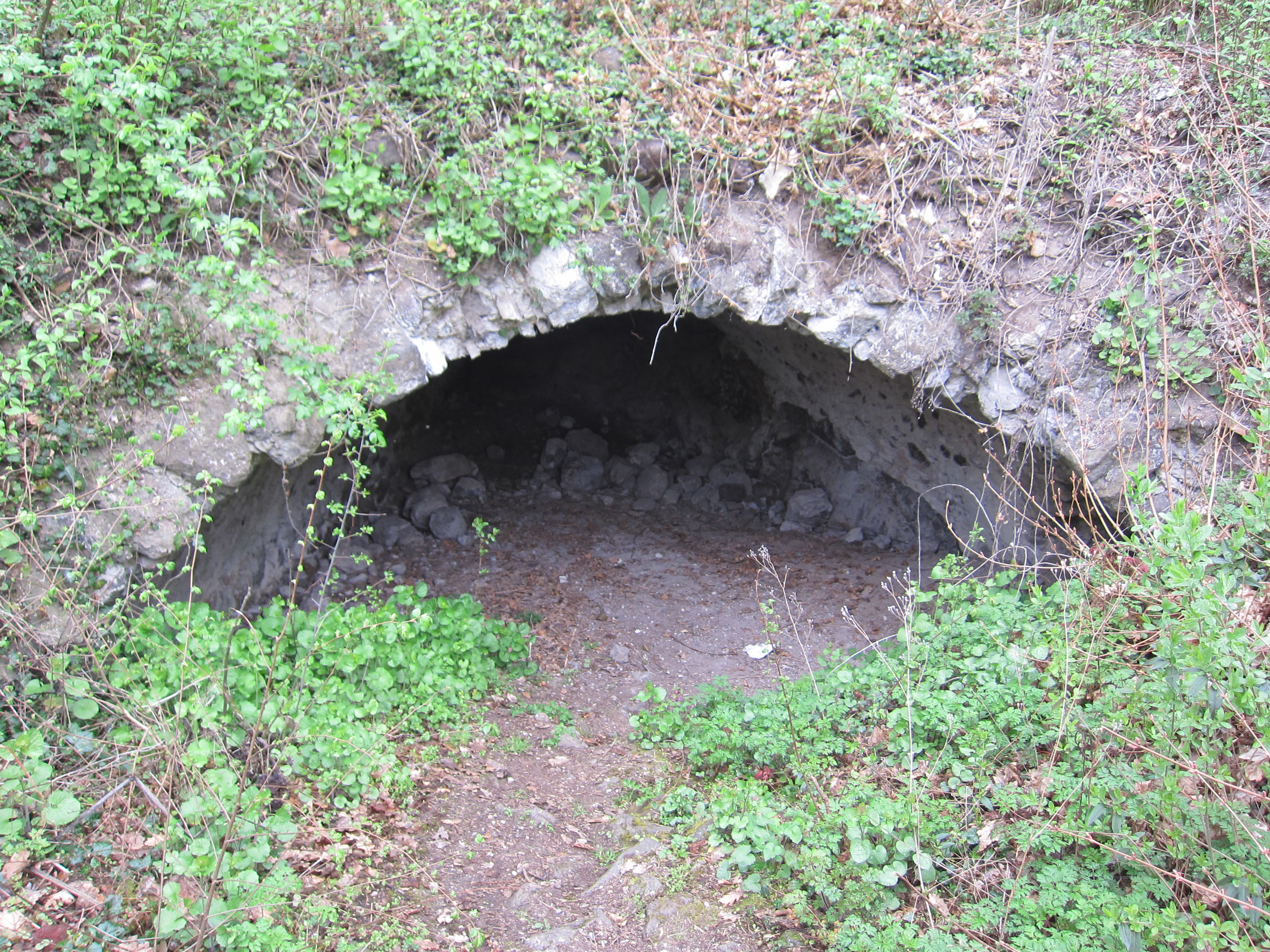 Limburg Castle, basement vault in the northeast of the castle